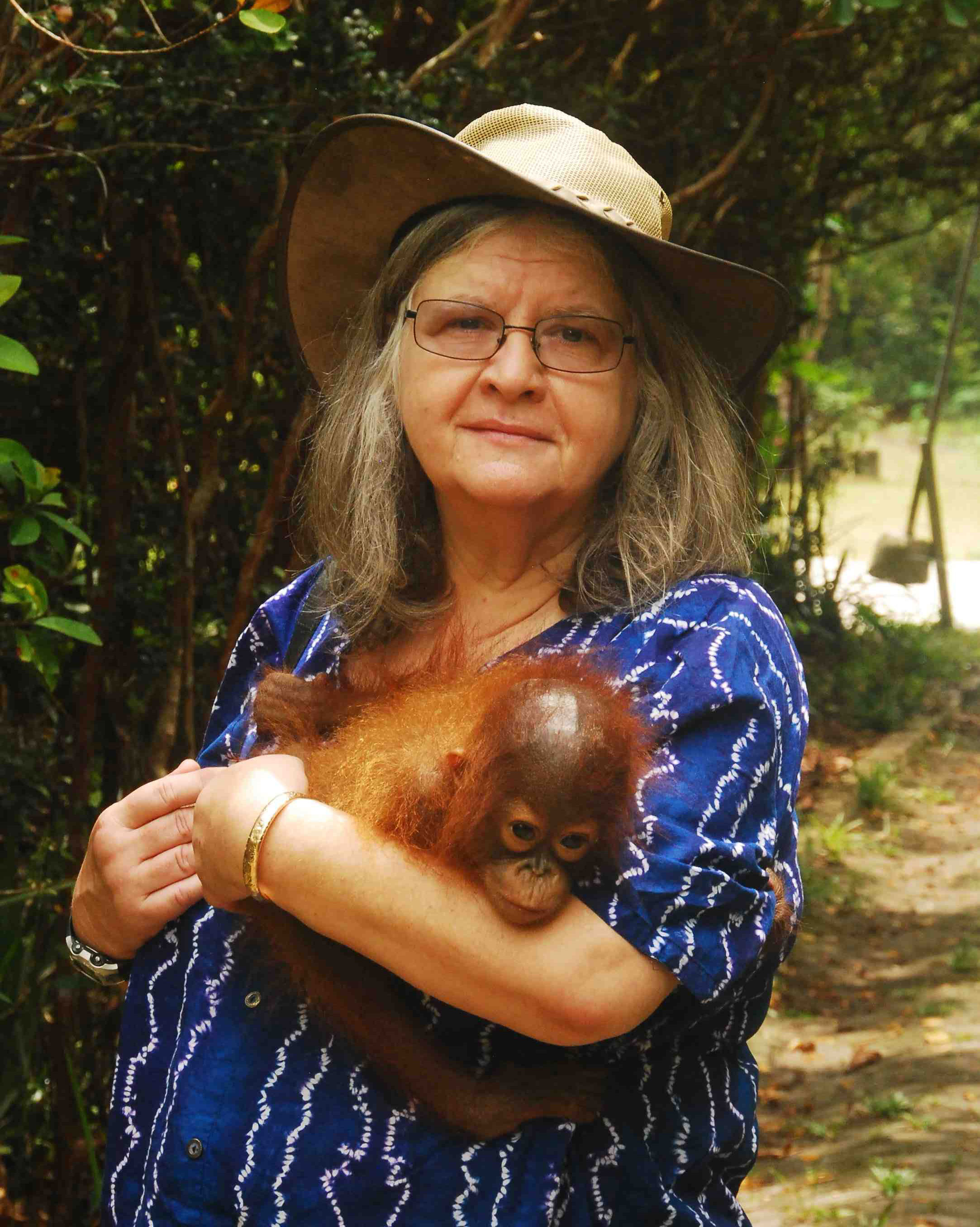 Simon Fraser University anthropologist, primatologist, conservationist, ethologist, professor Birute Galdikas, whose research and rescue of the world’s endangered orangutans spans 40 years, plays a starring role in a major IMAX film documenting her work.